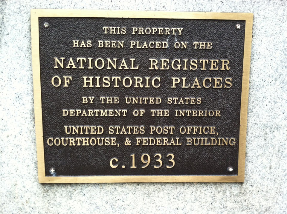 Metal plaque placed on the federal building and former post office